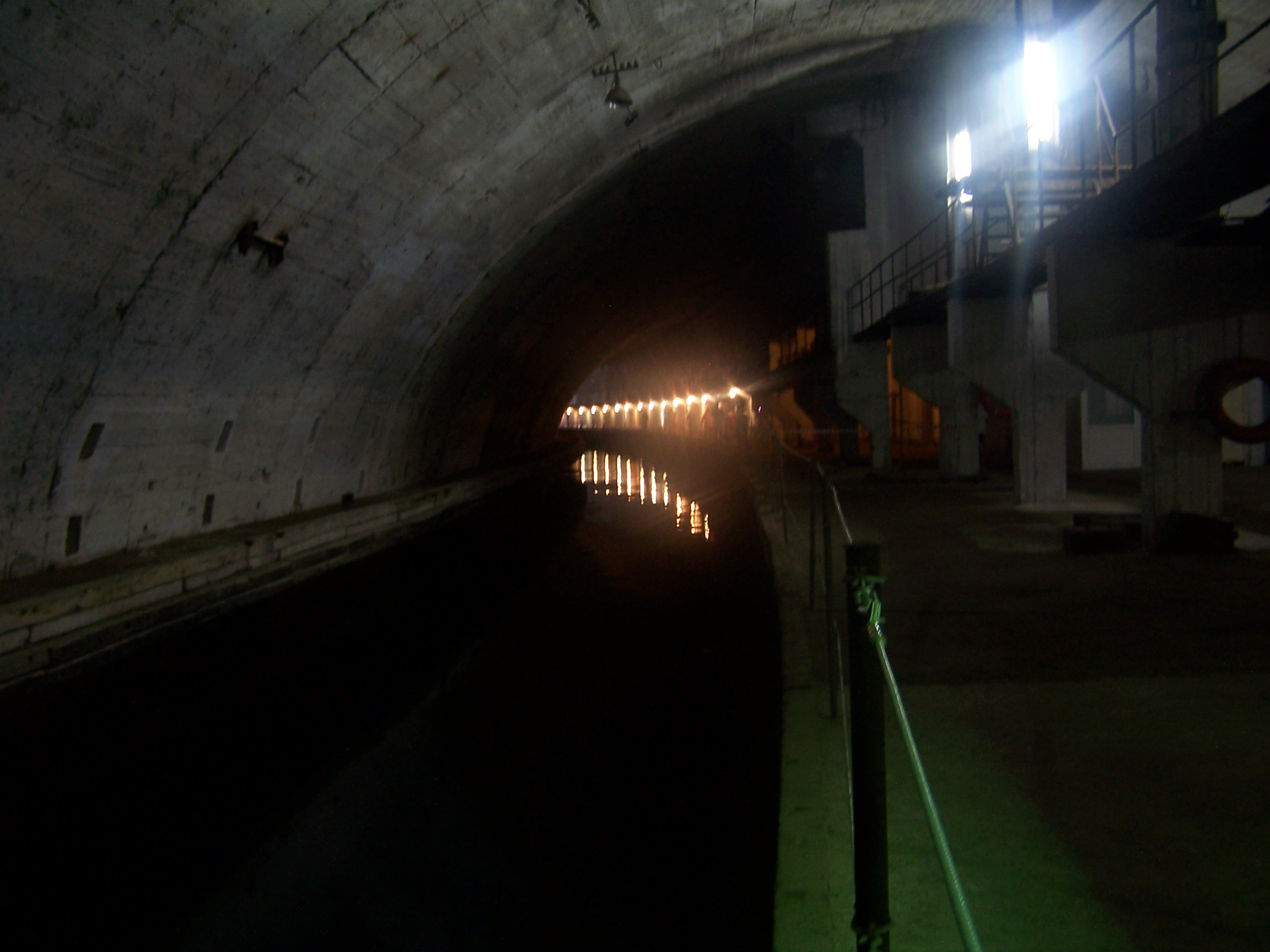 The Balaklava naval Museum (former anti-nuclear bunker for submarines). The submarine canal.